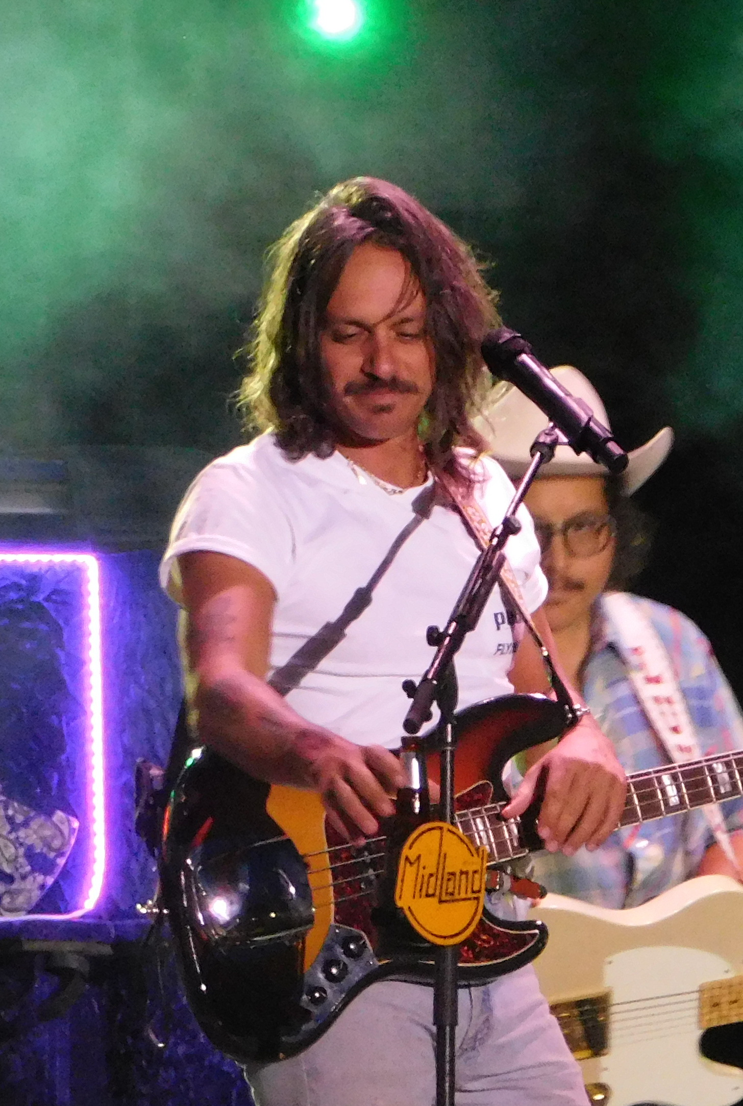 Midland in concert at NY State Fair, showing Cameron Duddy